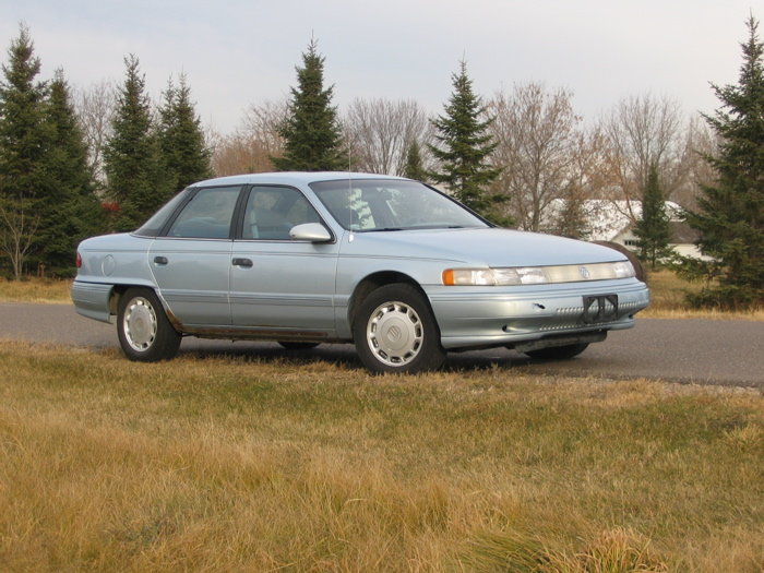 1993 (2nd generation) Mercury Sable GS